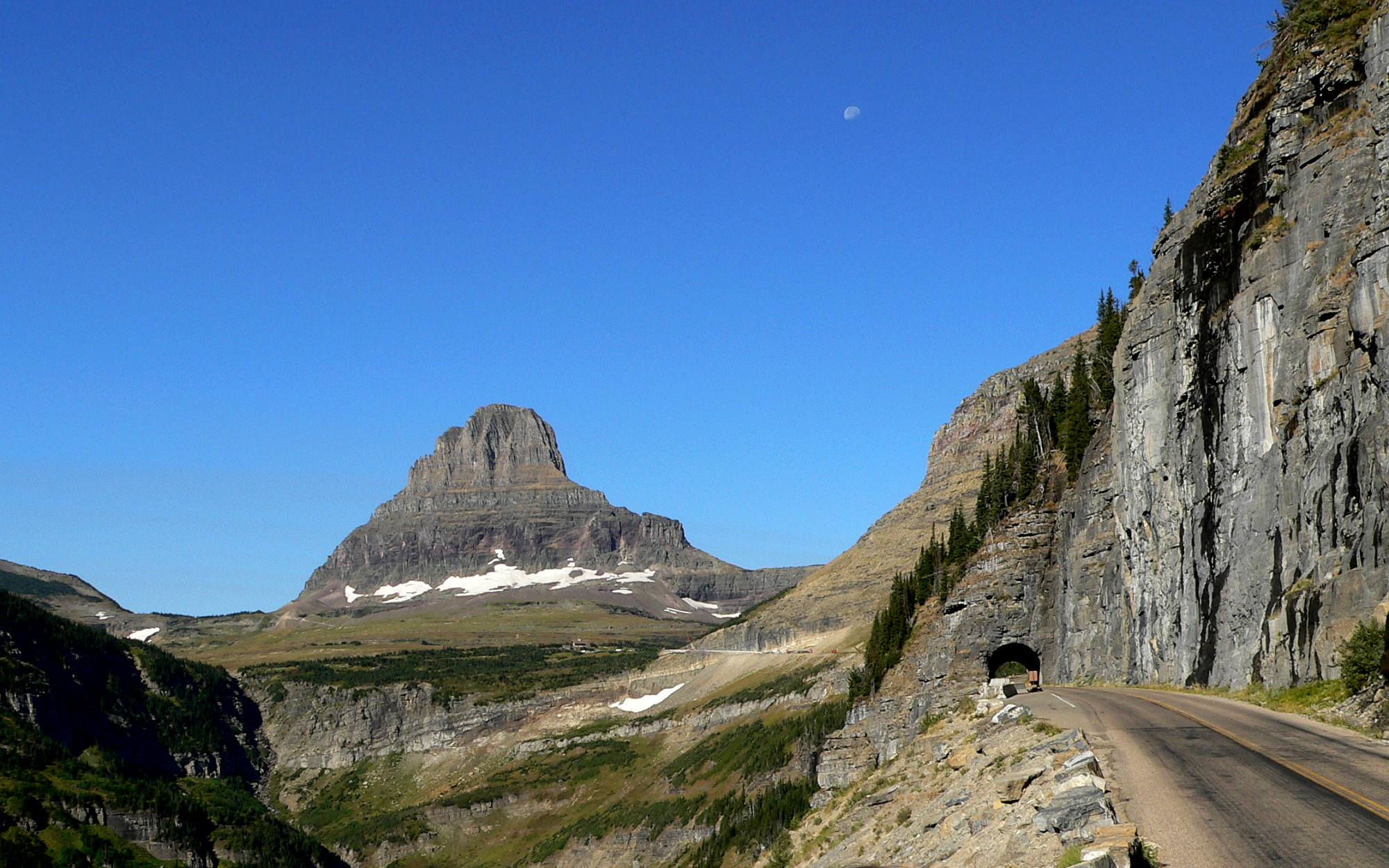 A short tunnel on Going-to-the-Sun Road near Logan Pass. Photo taken with a Panasonic Lumix DMC-FZ20 in Glacier National Park, Montana, USA.